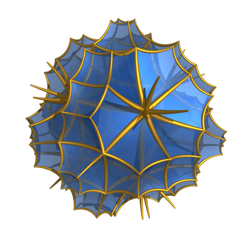 Hyperbolic great cubic honeycomb under construction